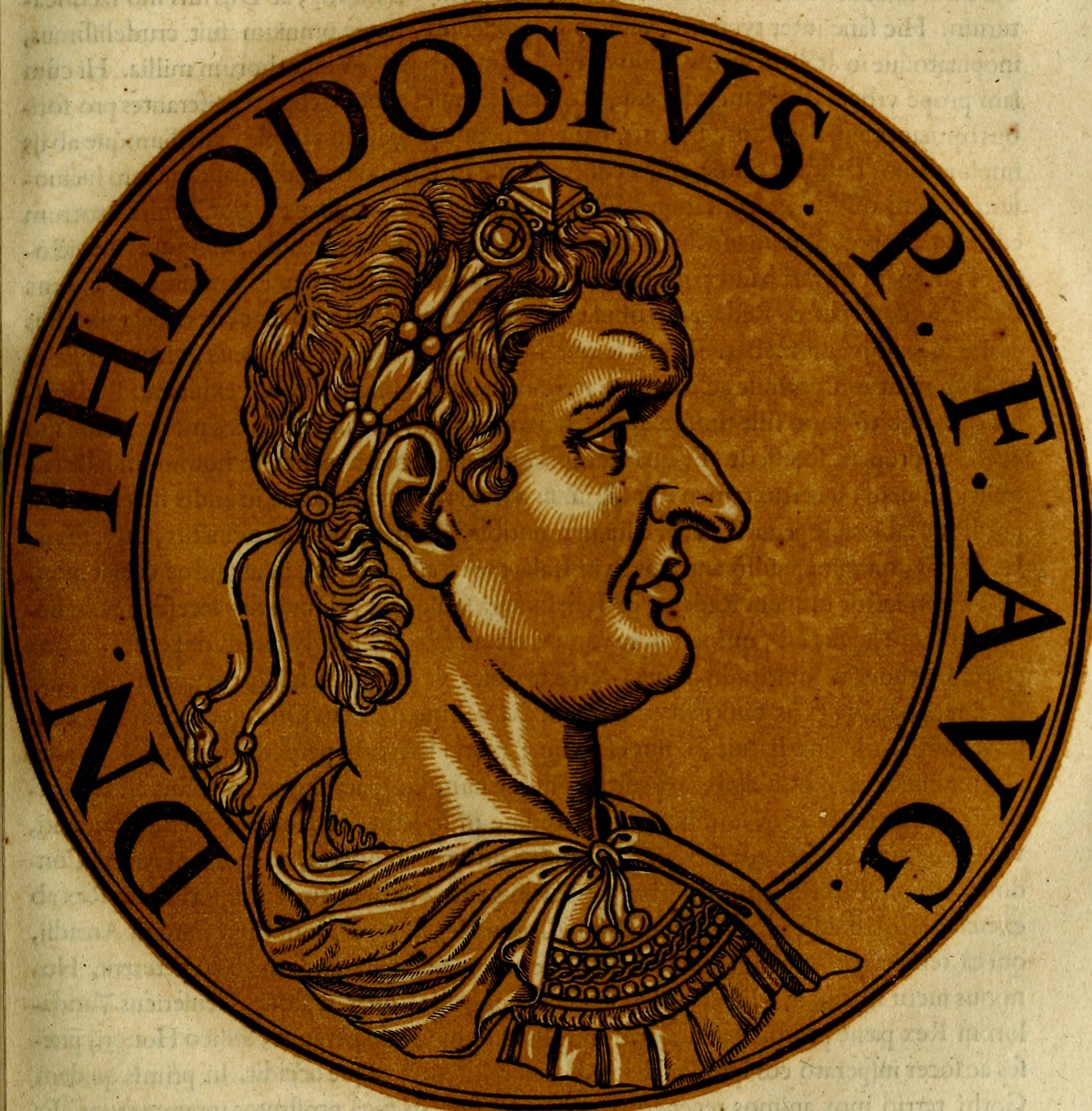 Title: Icones imperatorvm romanorvm, ex priscis numismatibus ad viuum delineatae, & breui narratione historicâ Year: 1645 (1640s) Authors: Goltzius, Hubert, 1526-1583 Gevaerts, Jean-Gaspard, 1593-1666 Rubens, Peter Paul, 1577-1640 Subjects: Emperors Emperors Numismatics, Roman Publisher: Antverpiae, Ex officina plantiniana Balthasaris Moreti Text Appearing Before Image: -bus oculh templum Domini ^cui patent omnia., intueberls?quibuspedibus facrofanctum cntspauimentumconculcabls ? quomodo aitdebis manus tuas extendere innoxiorum fanguinc et-iamnum manantes? ideireb fecede hint^mnculum^quo te rerum omnium Domintts ligauit,accipe &c. His verbis Theodofius obtemperauit, (fciebat enim facile, quodnam Sacerdo-tis eflet ofKcium)ac flens gemenfque difceflit, atque menfibus o£to manfit excommunica-tus- Abfolutus tamen poftremo fuit hac conditione, vt aduerfus iram fubitaneam (ex qtnil boni proficifeitur) legem ferret, ne quifquam praxipite iudicio iniuria pofthac afficere-tiir.Conftitutionem igitur promulgabat eiufmodi, ne Principum aut Iudicum fententias inoccifores latas fubito ad eXecutionem producerentur.verum fufpenlat triginta diebus ferua-rentur,atque ipfi rei carcere inclufi detinerentur5num quid interea poflit exoriri,vnde dam-natis iniuriam facl:am conftaret,adeoque turn fententiaz queant reuocari. 163 LXXXI. ER1PERE TELVM, NON DAREIRATO DECET. Text Appearing After Image: Vna cum Gratiano eiufque fratre Orienti prsefuit x v i. annis,cum filio vno anno: obijt quadragenarius. X 2